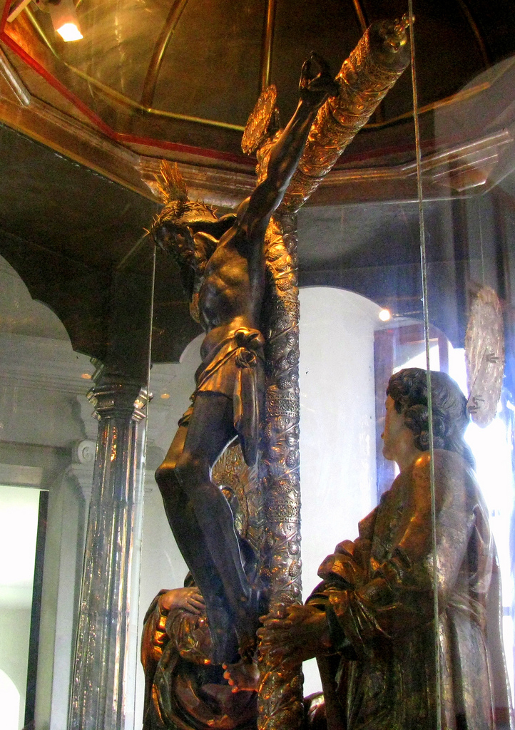 Black Christ of Esquipulas, 2009, Guatemala.